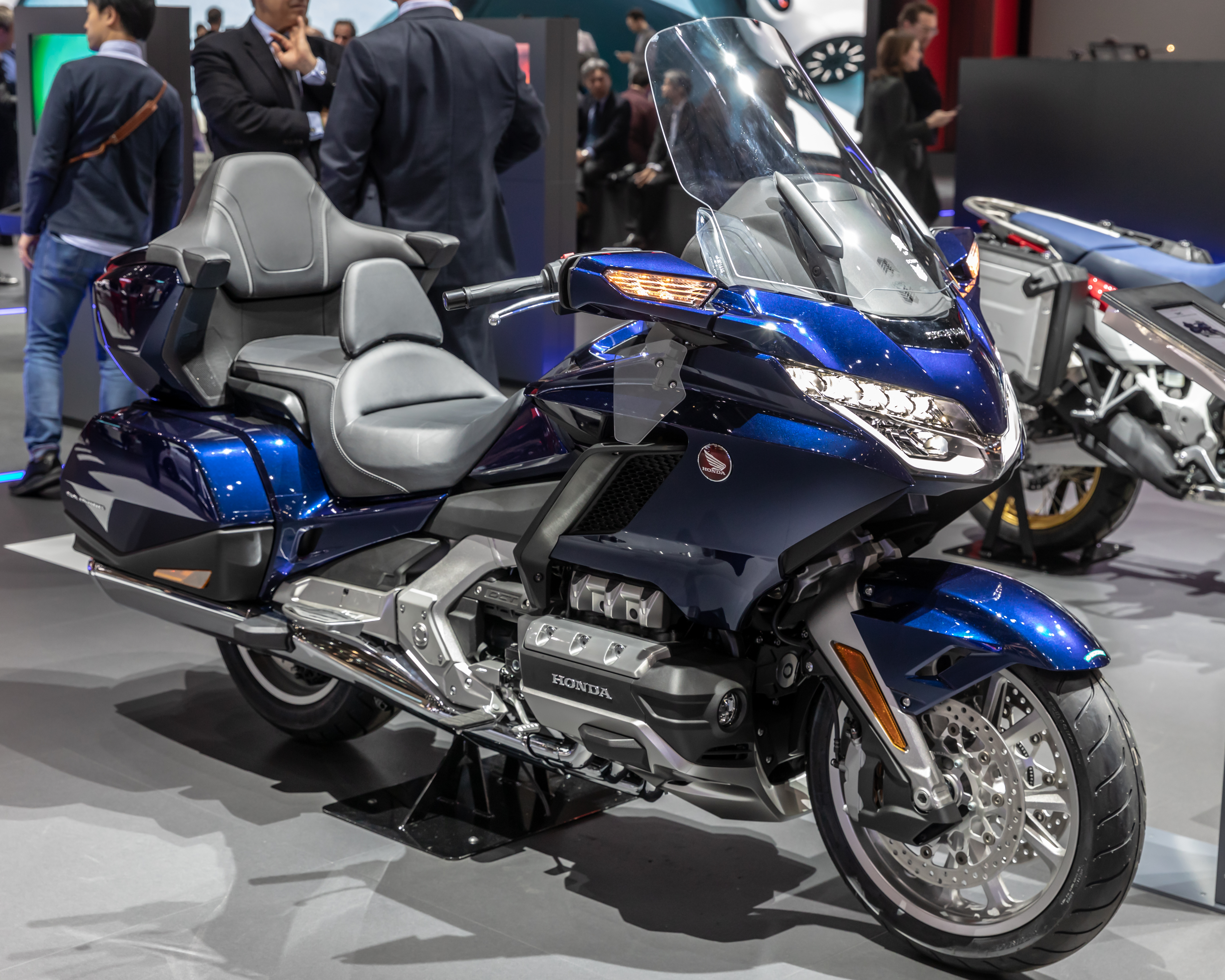 Geneva International Motor Show 2019, Le Grand-Saconnex